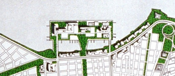 Havana Plan Piloto, Island in front of Havana Malecon